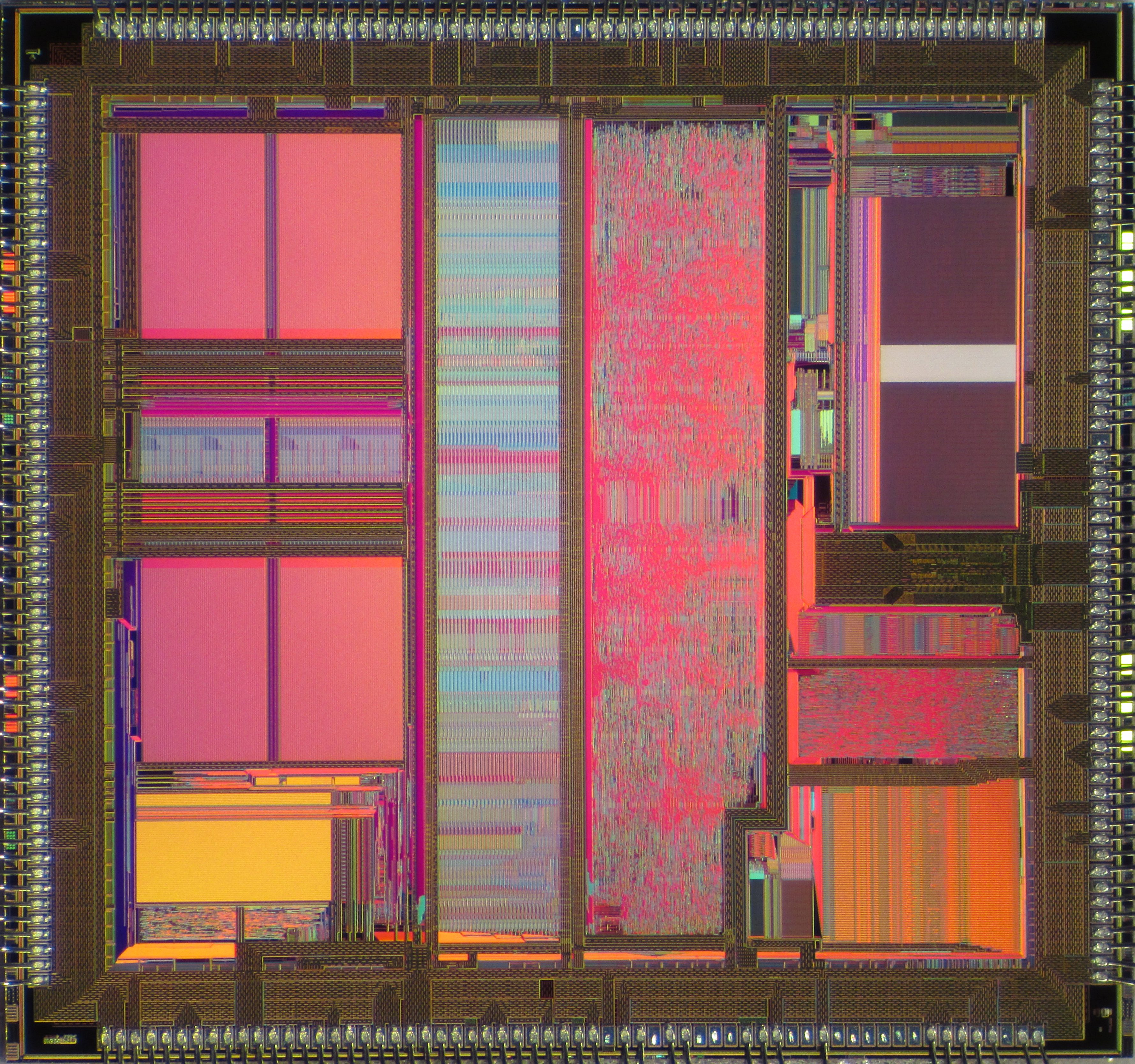 Die shot of AMD Am486 DX4-100 (A80486DX4-100NV8T rev B).